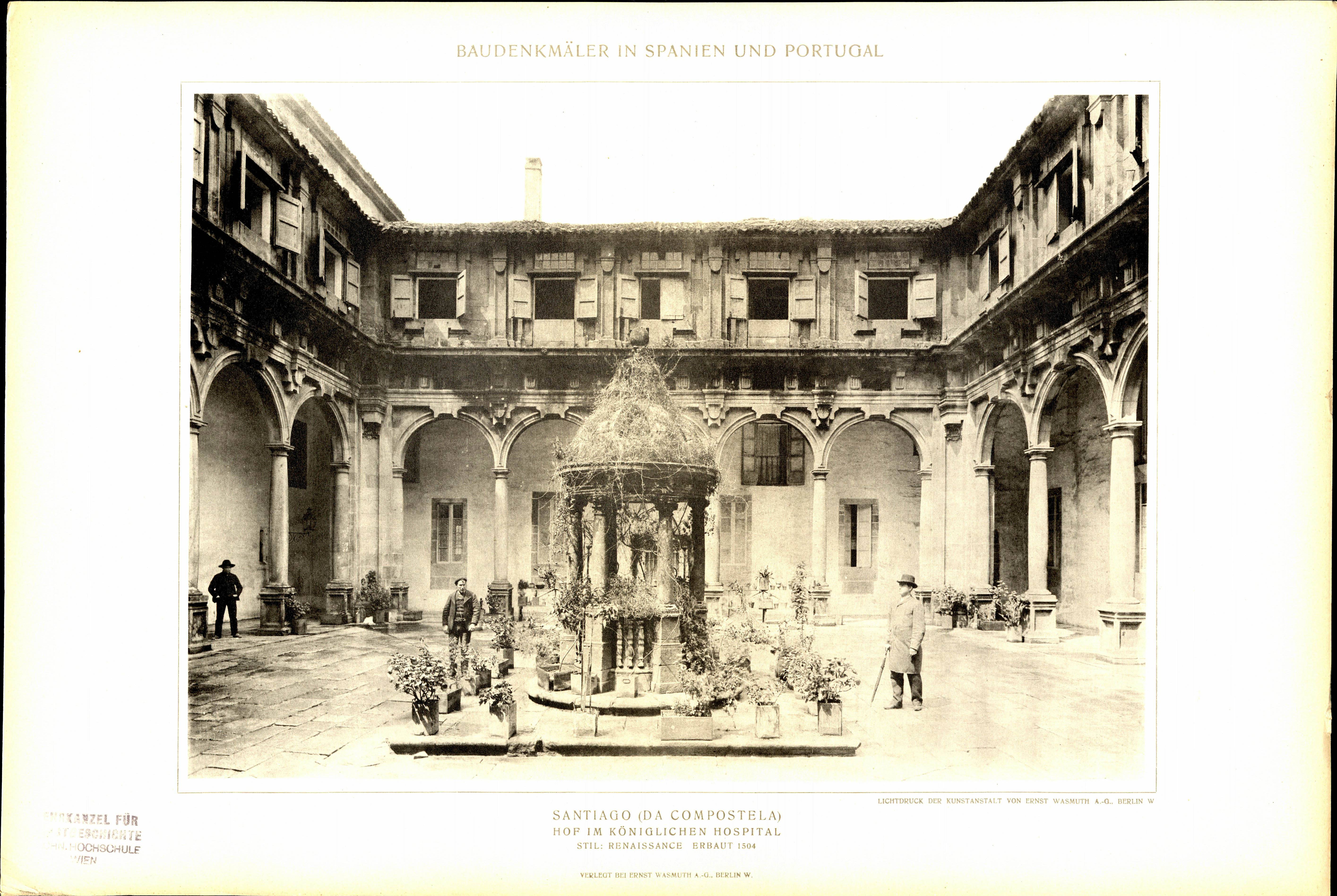 ung Constantin Uhde, Baudenkmäler in Spanien und Portugal. Aufnahmen einer Reise 1988-1989 Berlin, Verlag von Ernst Wasmuth 1892 Scanprojekt Bundesdenkmalamt Österreich This scan or this PDF-file was created within the Austrian Wikipedia-project Denkmalpflege Österreich (German only) supported by Wikimedia Germany and Wikimedia Austria as part of the Wikipedia community-project to collect public domain documents from the library of the Heritage Monuments Board of Austria. This document describes or depicts an object which is in various countries. Texts are written in German language. Send requests for uncompressed scans to Hubertl. This work is in the public domain in the United States, and those countries with a copyright term of life of the author plus 100 years or less. This file has been identified as being free of known restrictions under copyright law, including all related and neighboring rights.